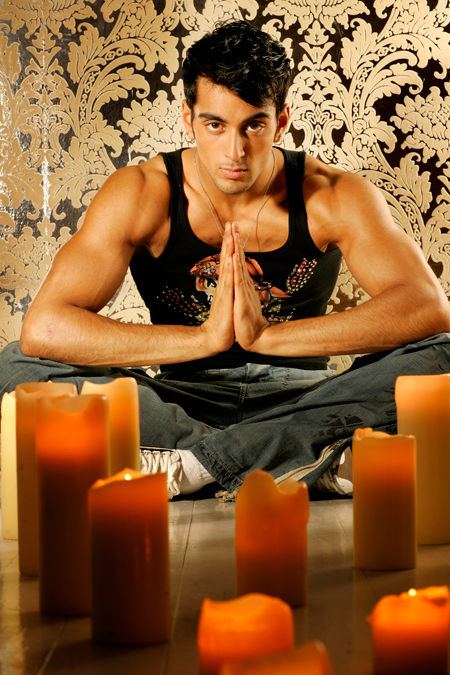 Adil Khan, Norwegian actor. Picture taken during a 2006 photo shoot with Morten Bendiksen.